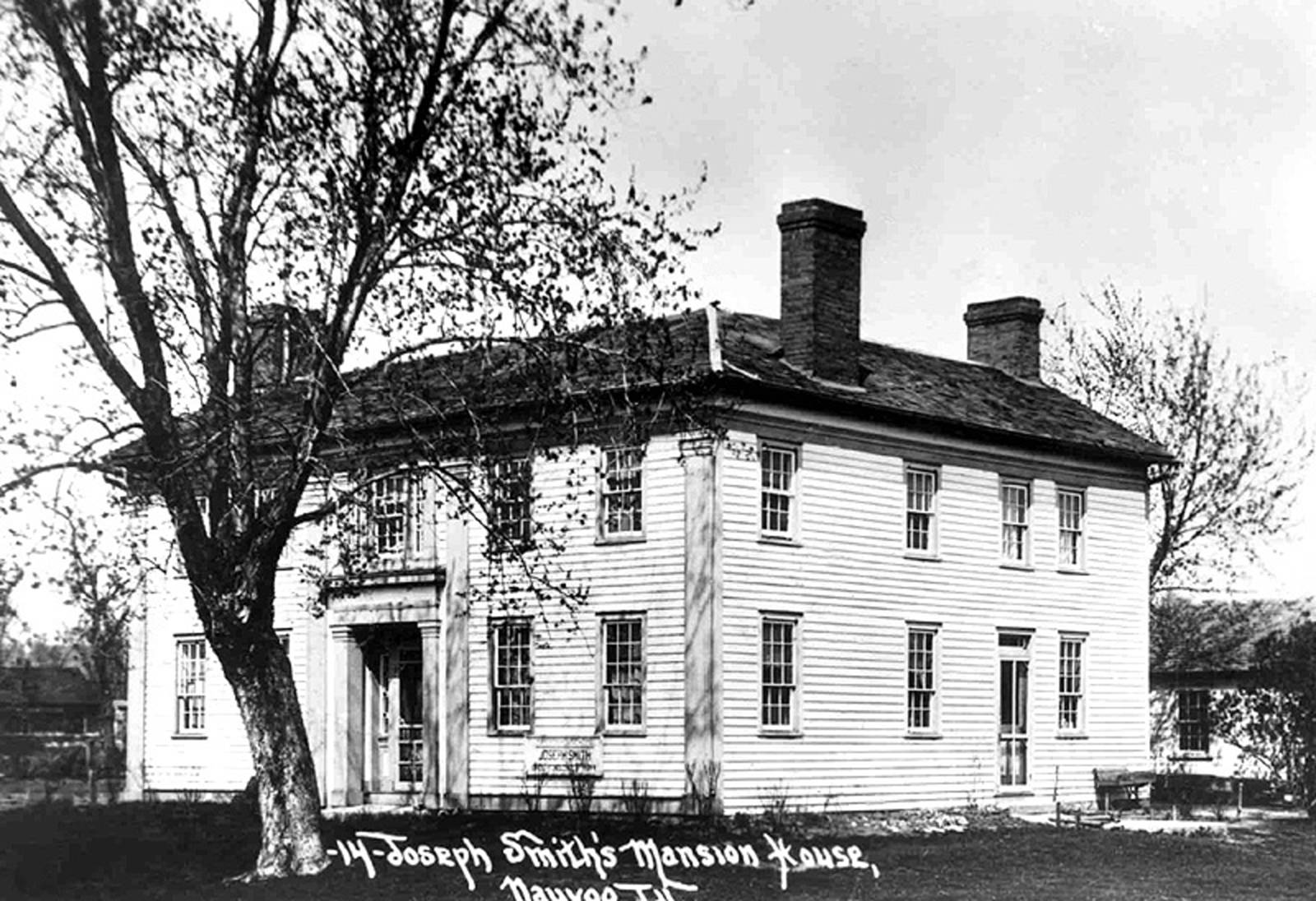 The Joseph Smith Mansion House in Nauvoo, Illinois is a building constructed by Joseph Smith, Jr., the founder of the Latter Day Saint movement. Smith used the house as a personal home, a public boarding house, a hotel, and as a site for the performance of temple ordinances.